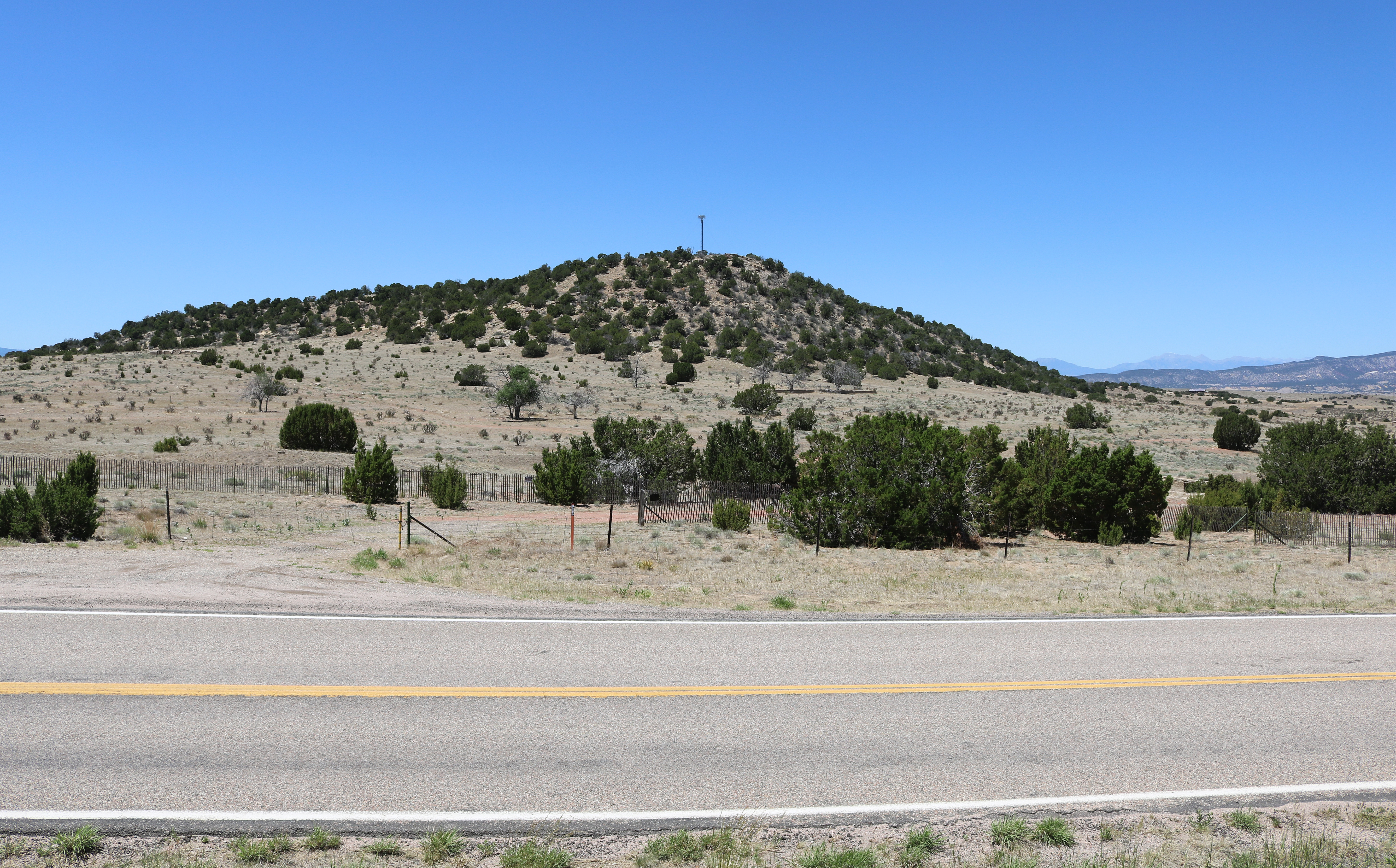 A view of the ghost town of Delcarbon, Colorado, in Huerfano County. The highway is Colorado State Highway 69.